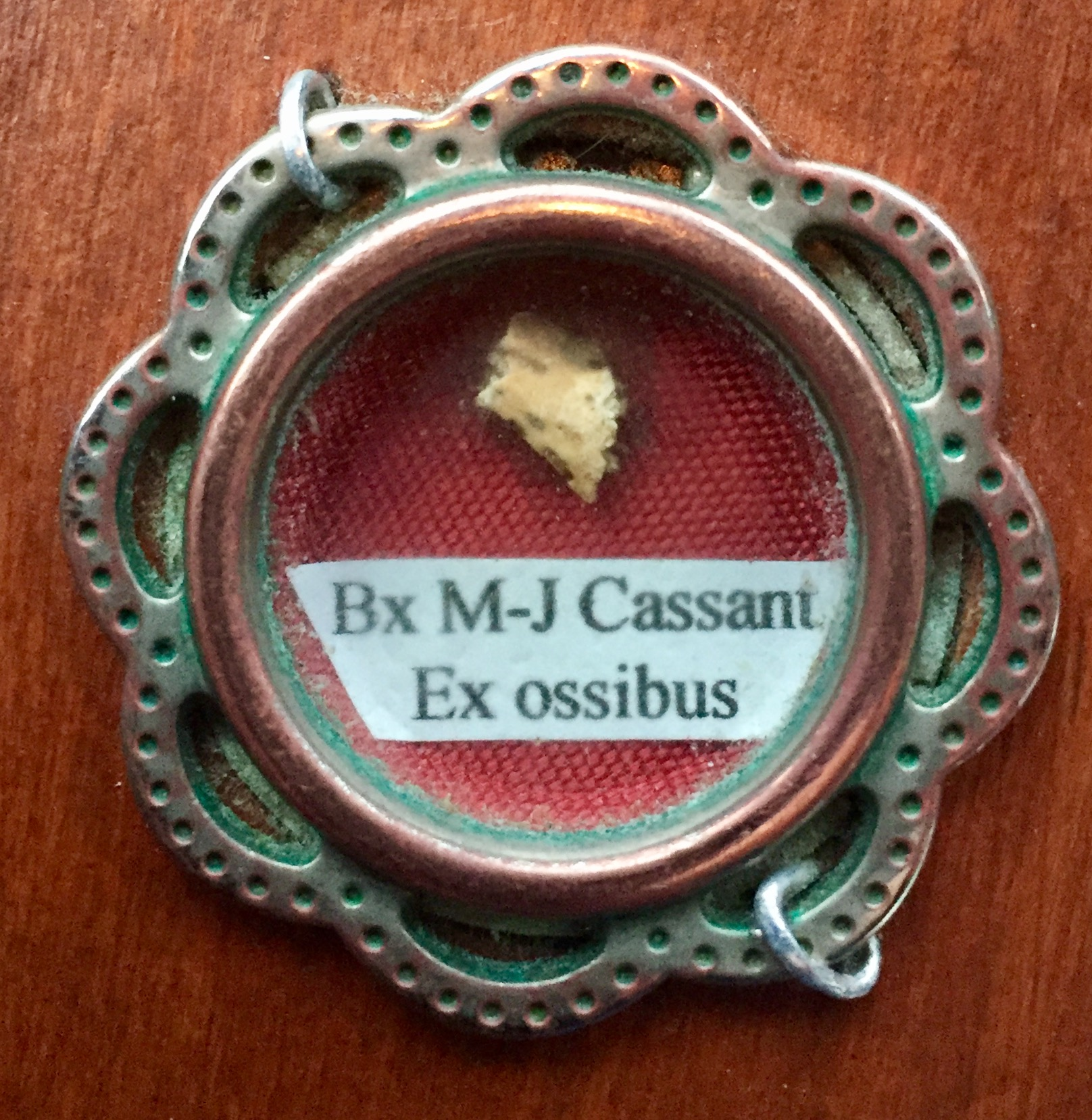 Bless Marie Joseph Cassant bone relic